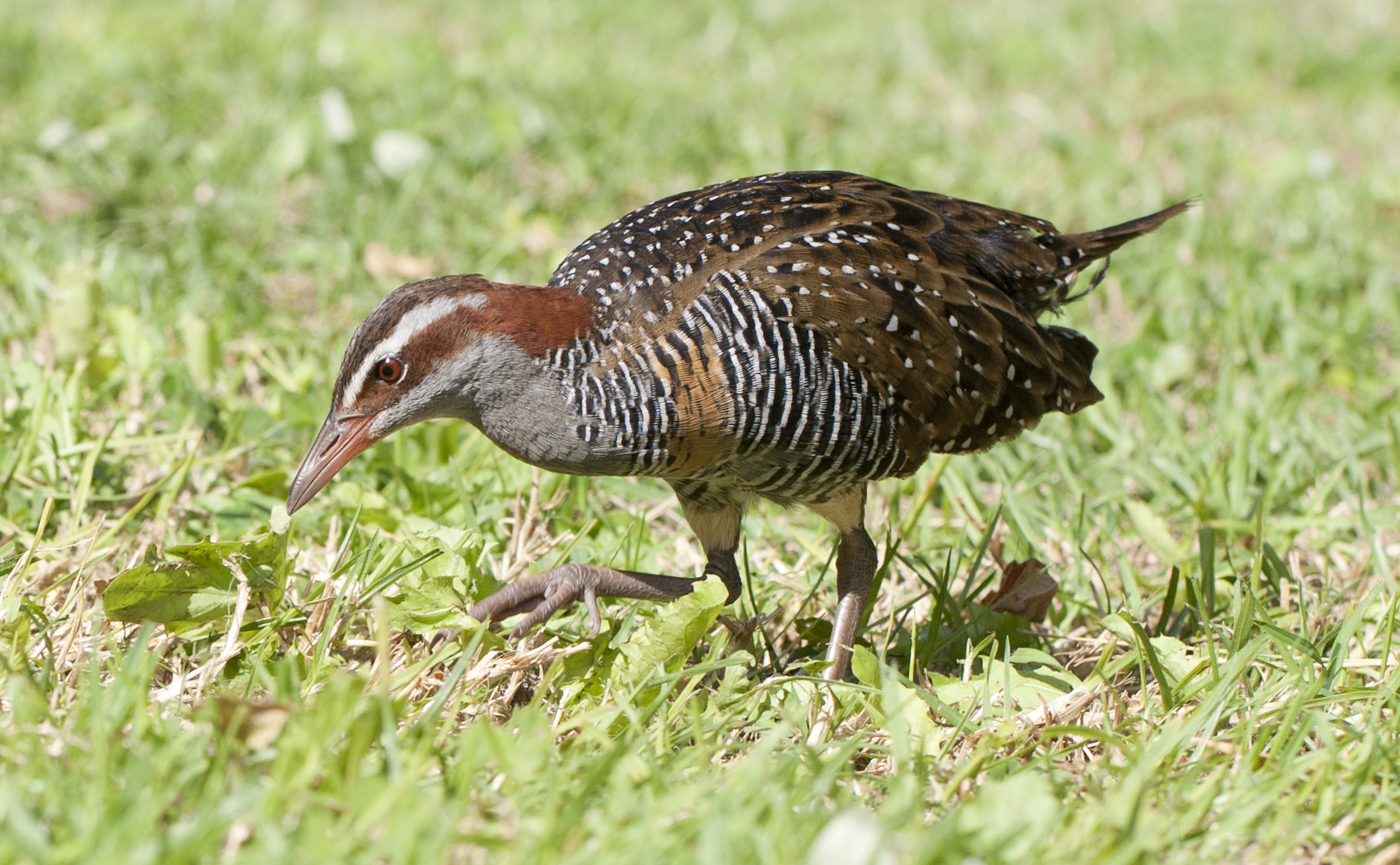 A Buff-banded rail (Gallirallus philippensis) on Lord Howe Island.